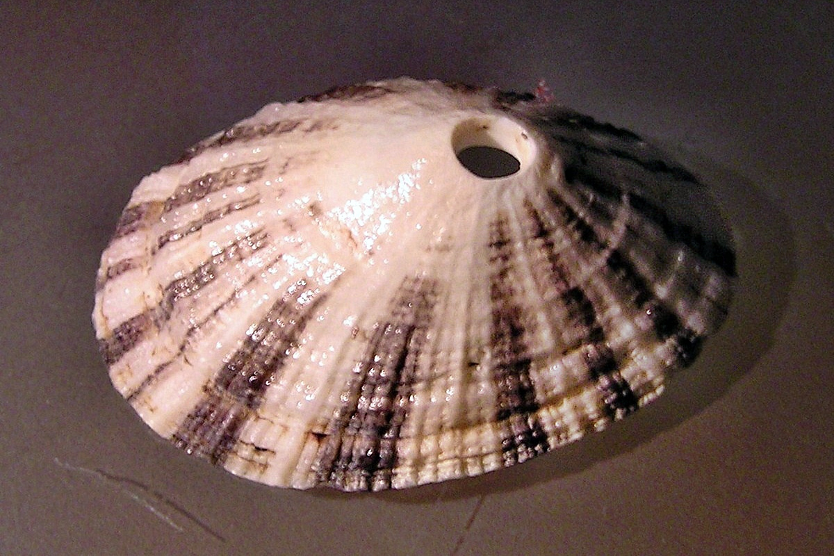 Diodora aspera (Rathke, 1833) (side view), a keyhole limpet from the family Fissurellidae